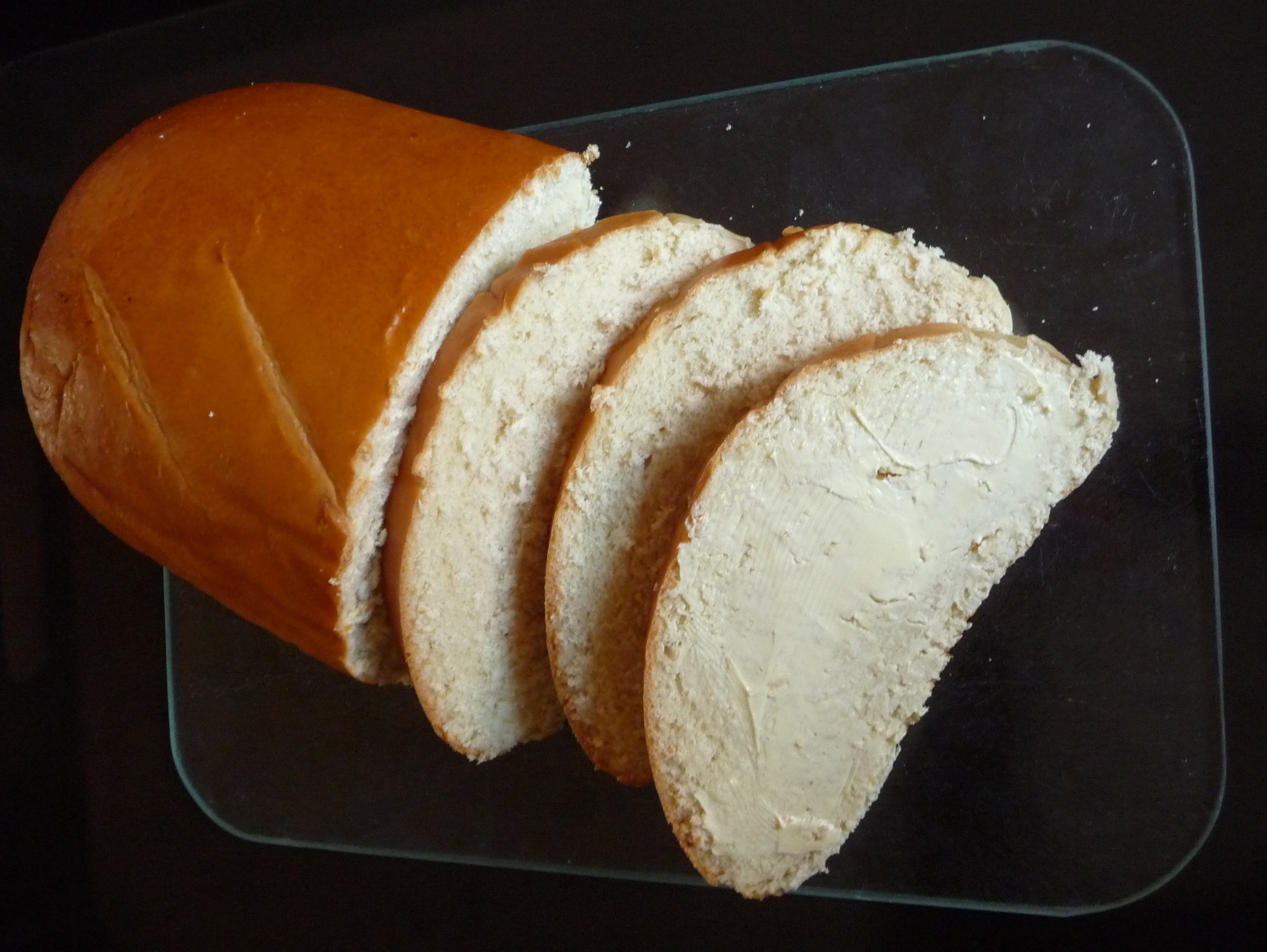 duivekater